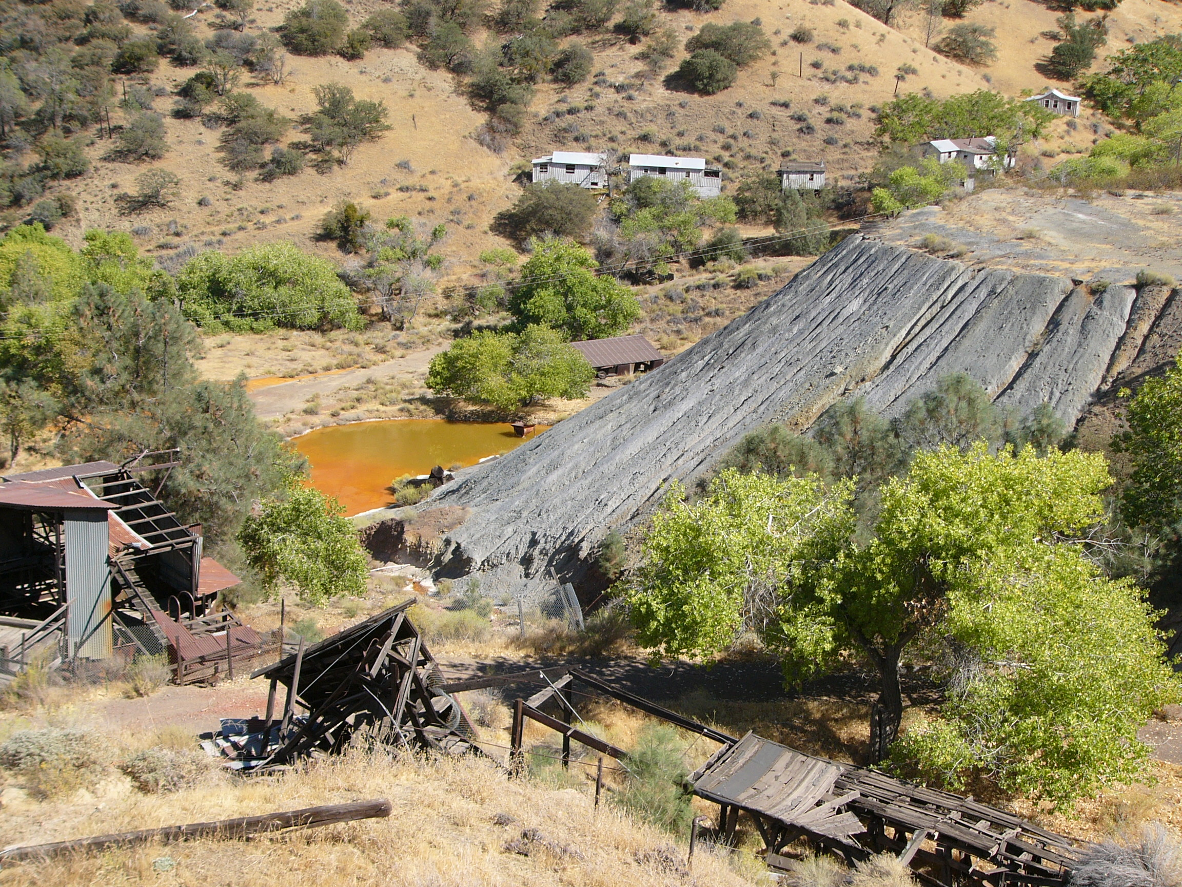 New Idria Quicksilver Mine/Ghosttown, California